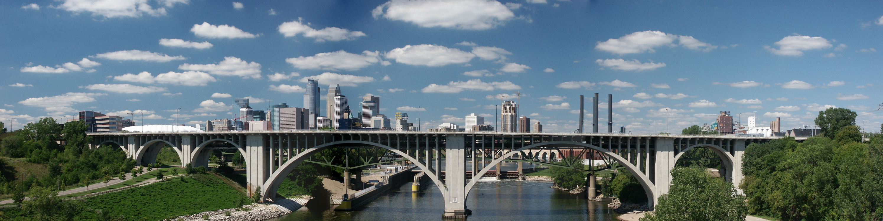 Stitched panorama of Minneapolis, Minnesota downtown looking northwest. Cedar Avenue Bridge (Minneapolis) over the Mississippi riverMinneapolis Panorama